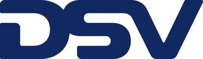 DSV's logo